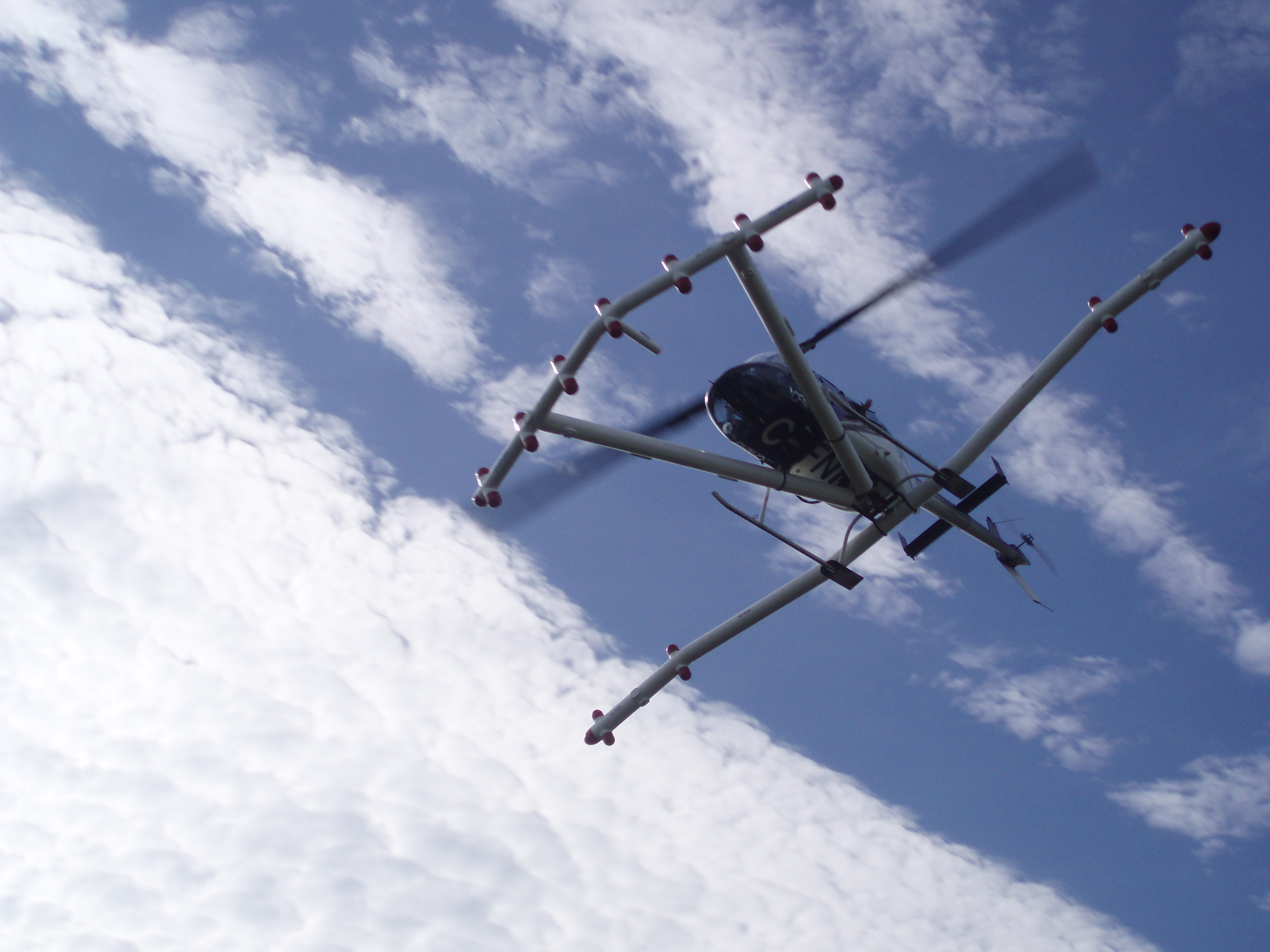 The helicopter magnetometer detects magnetic anomalies on the ground or in shallow surfaces. The device flies six feet above ground at speeds of 30 to 40 mph. Photo courtesy U.S. Army Corps of Engineers contractor, Zapata.